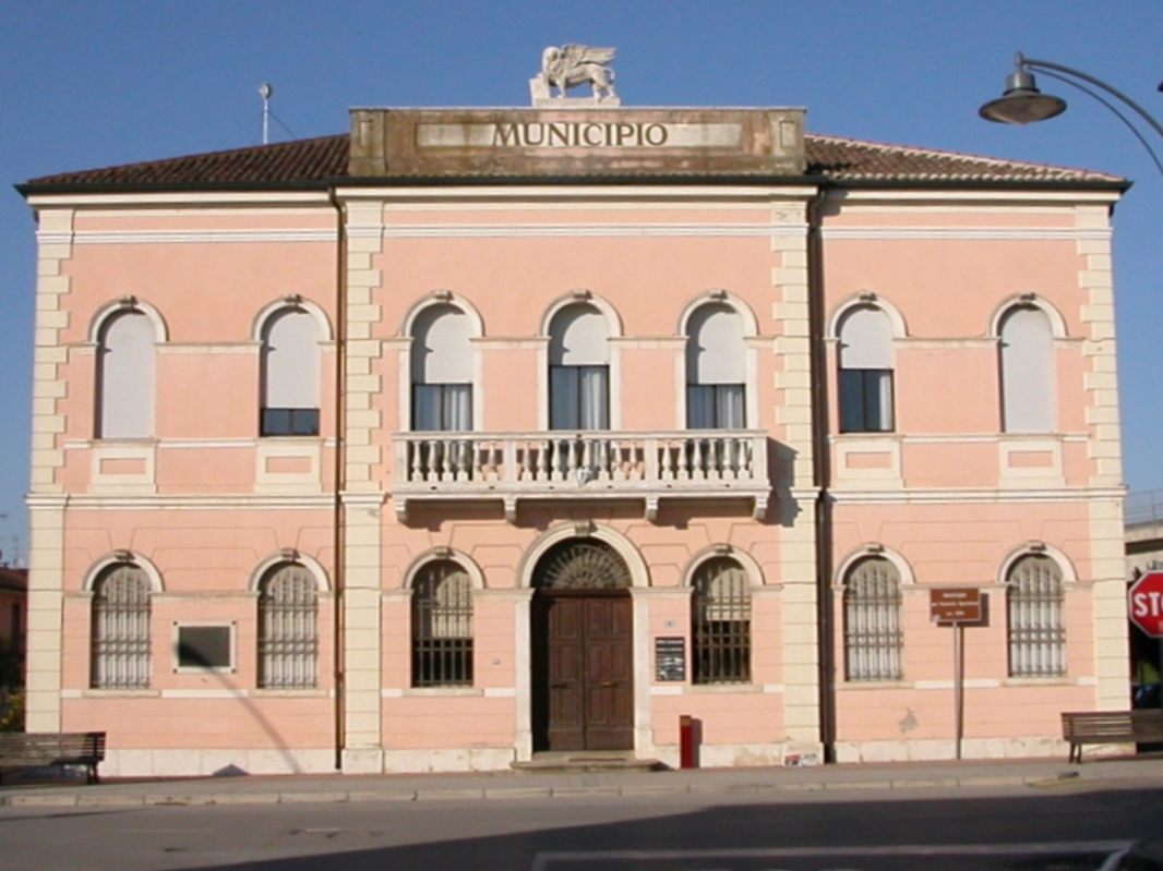 City Hall, Polesella.